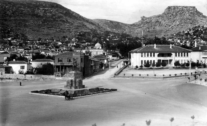 Muğla şehrinin eski bir resmi